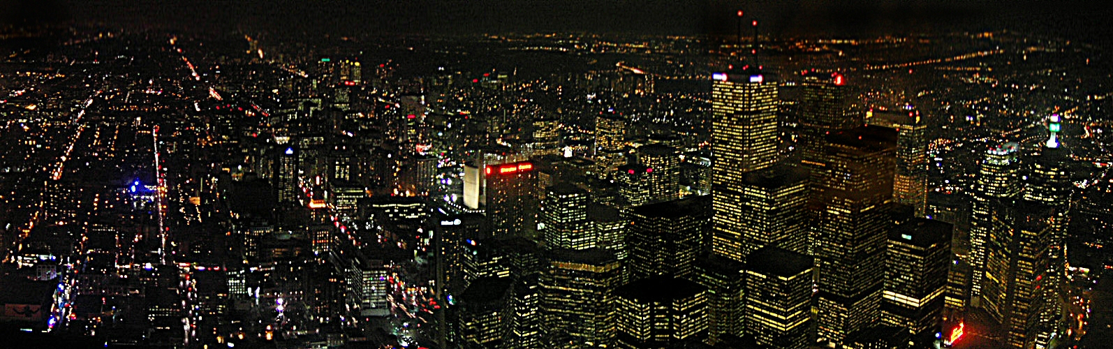 Large Image Panorama of Toronto skyline